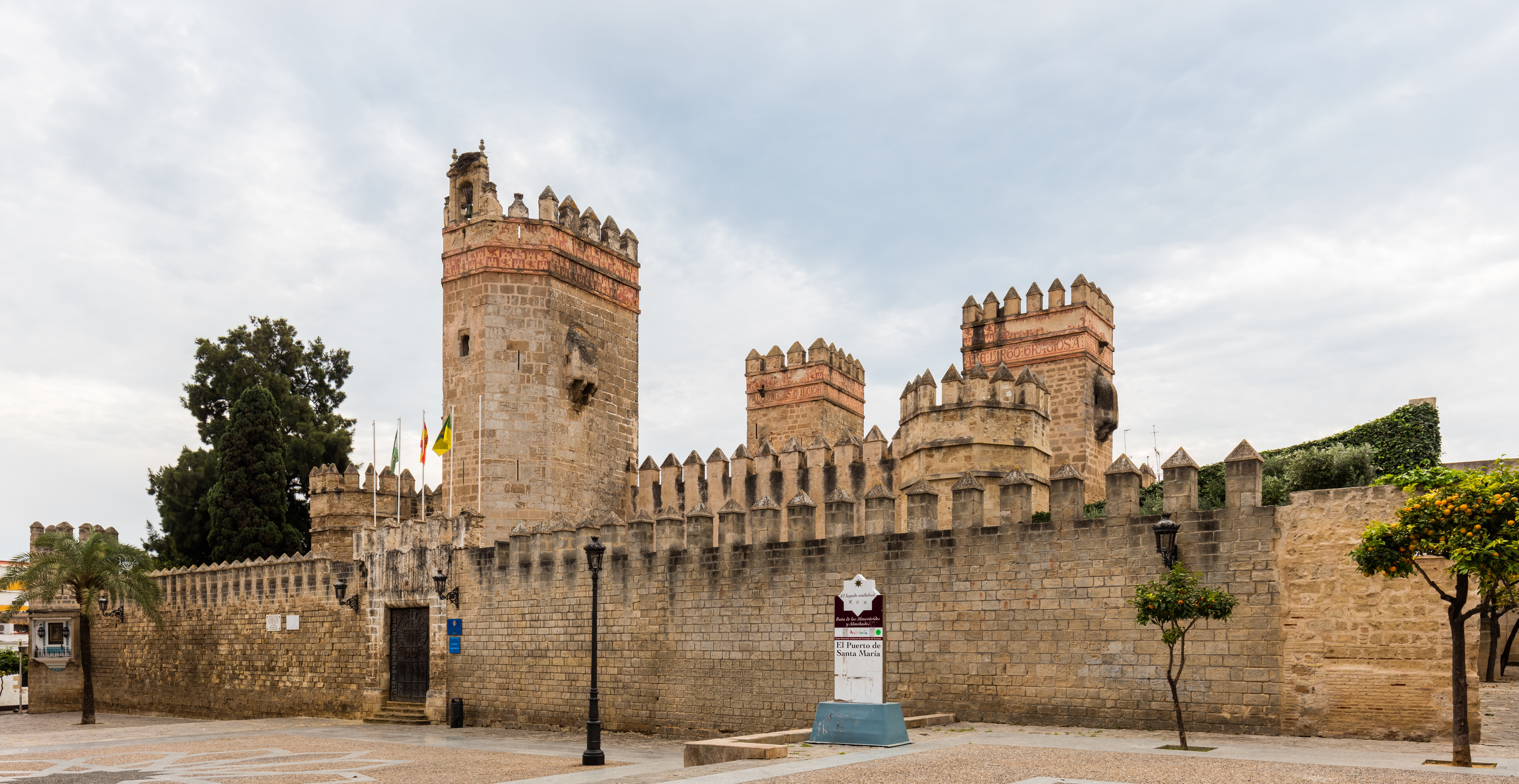 Castle of San Marcos, El Puerto de Santa María, province of Cádiz, Spain.